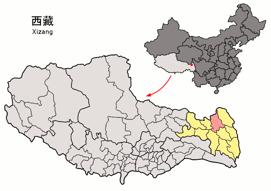 Location of Qamdo County (pink) and Qamdo Prefecture (yellow) within Tibet (Xizang) autonomous region of China